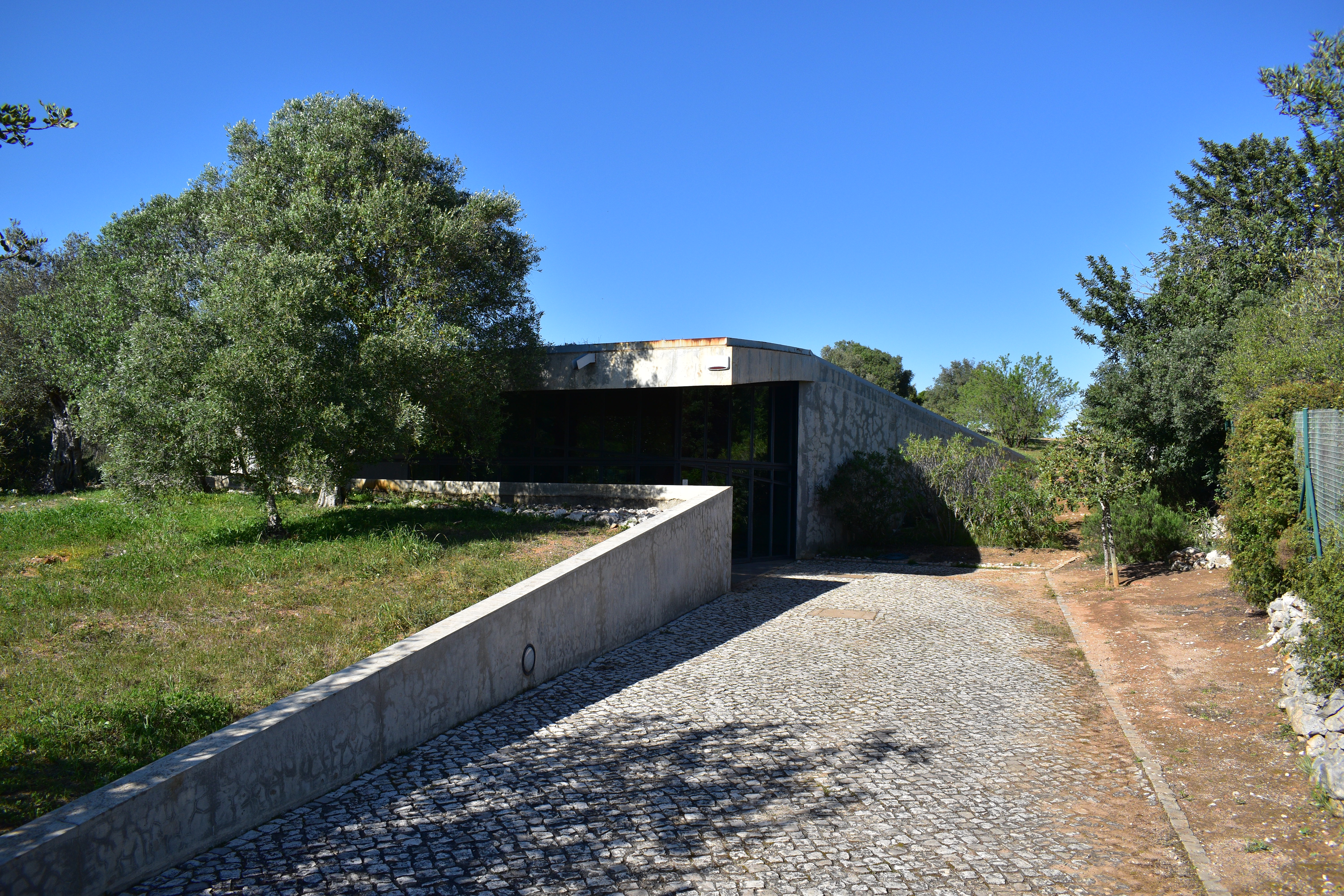 Interpretation center of Alcalar archaeological site, in Portimão municipality, in southern Portugal.